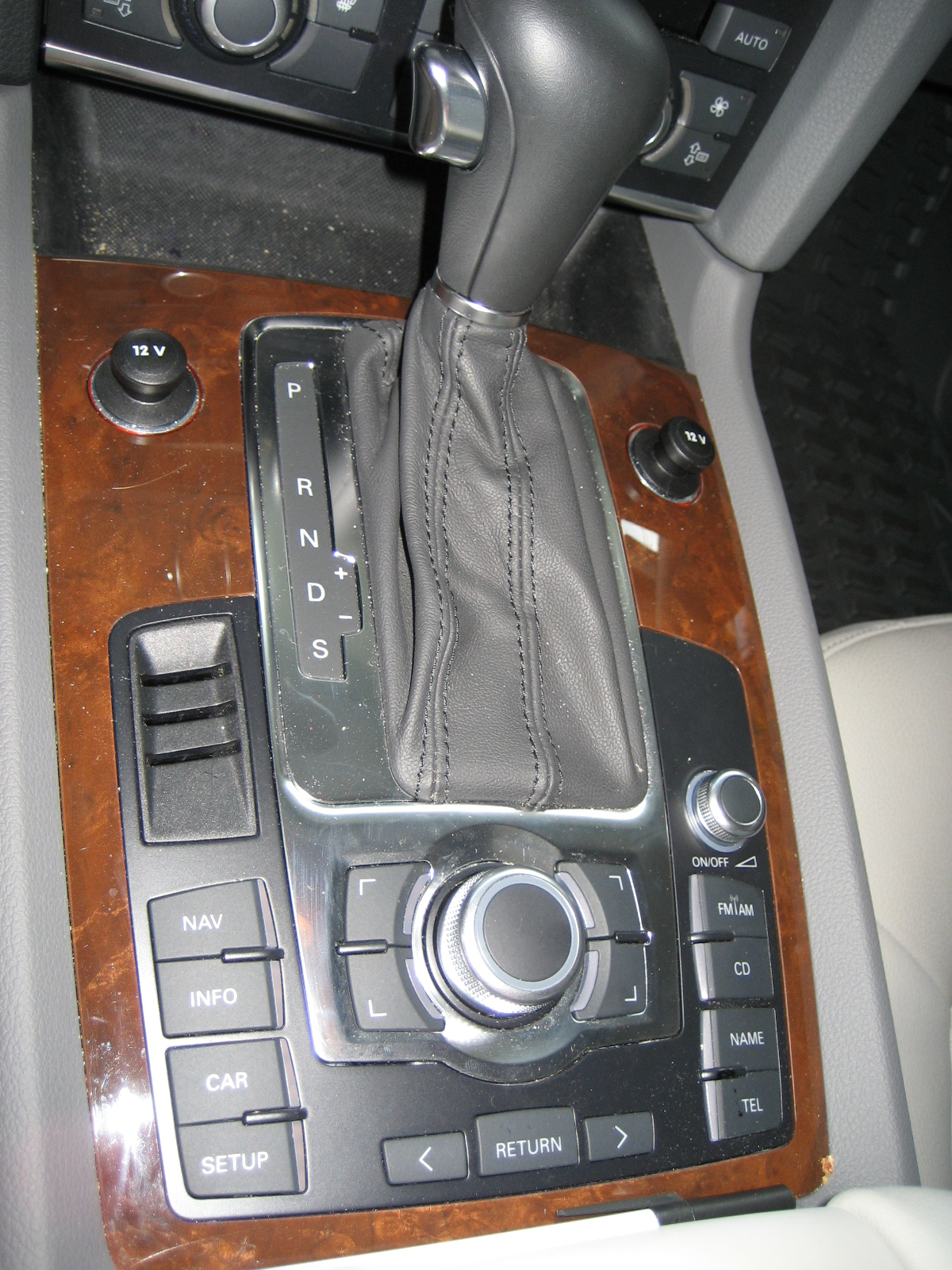 The MMI knob and related controls on a 2007 Audi Q7 3.6 Premium.